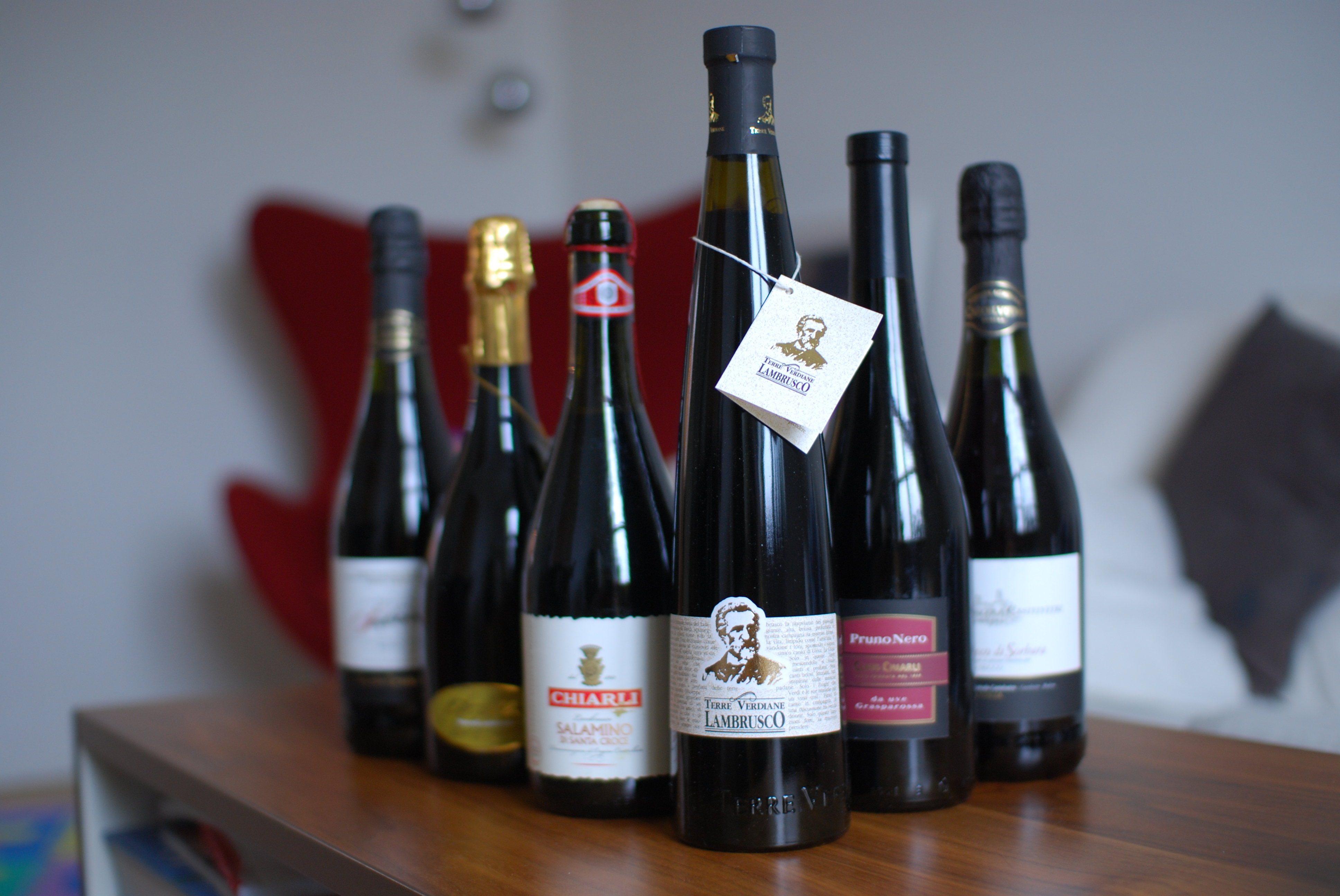 The Lambruscoes